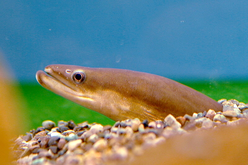 Japanese eel Anguilla japonica (Temminck & Schlegel, 1847)